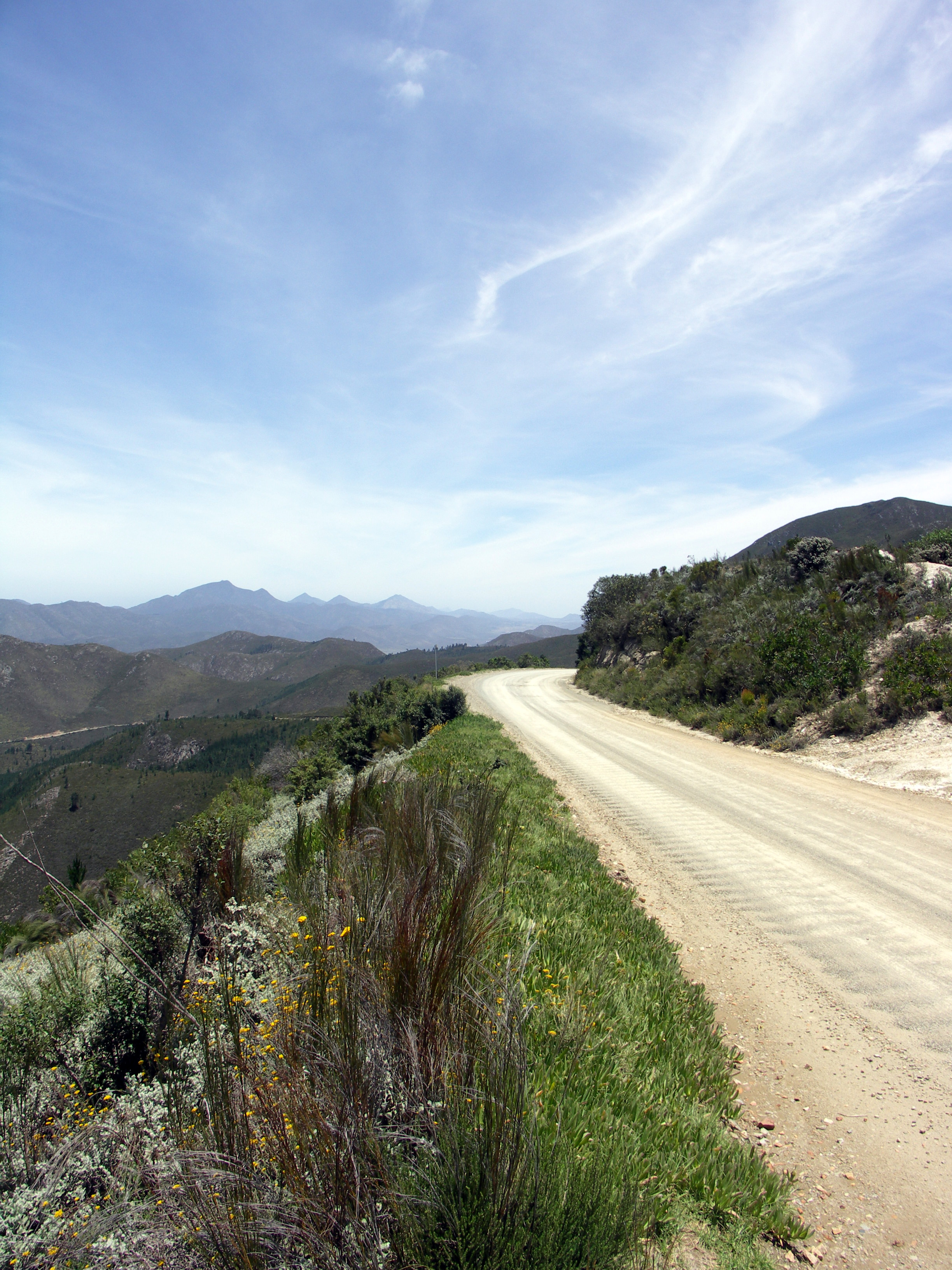 The R339 road at the top of Prince Alfred Pass over the Langkloof Mountains, Western Cape, South Africa